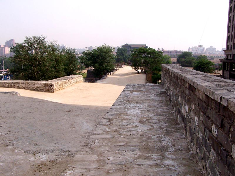 ruins of Beijing City Wall